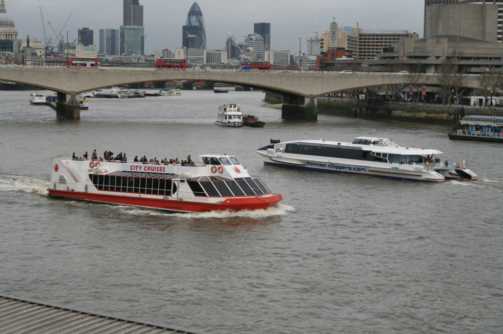 A City Cruises tour boat on the River Thames, London, UK